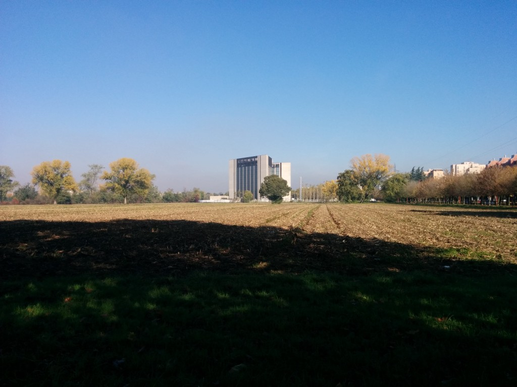 Laboratorio Interdisciplinare Tecnologie Avanzate, Segrate, Italy Home of the International Medical School